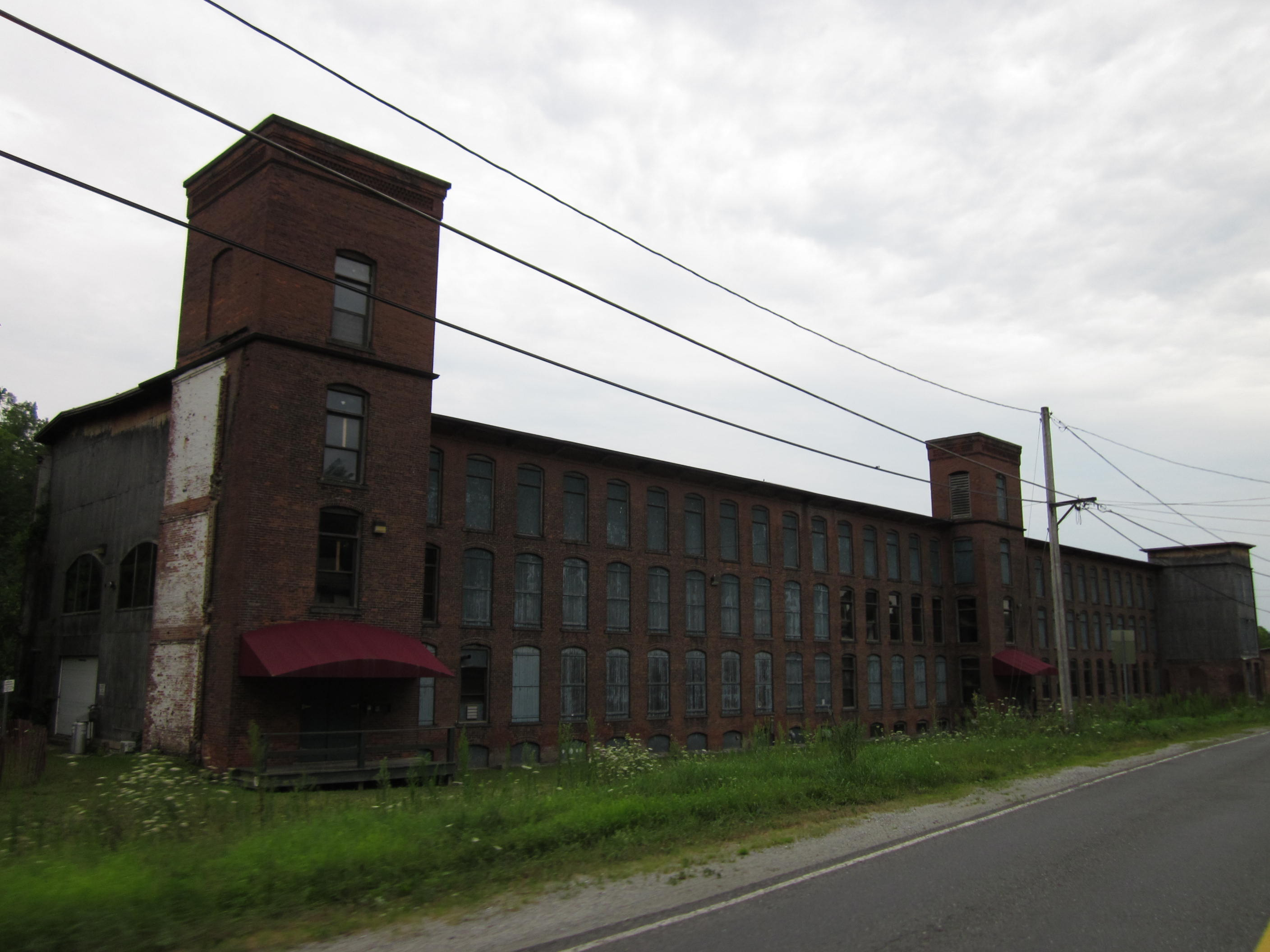 Monument Mill, Housatonic, Massachusetts